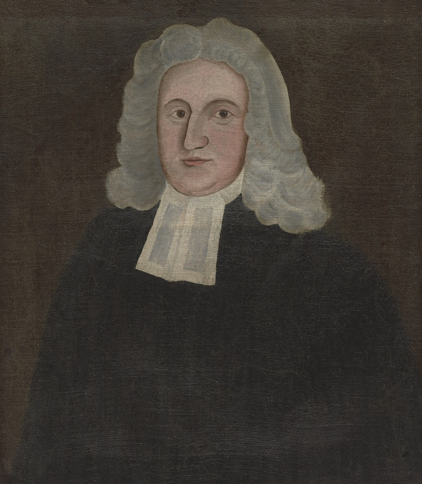 Portrait from Yale Art Gallery, artist unknown. Gallery indicates image is public domain and uploader reduced file size 50% on 18Aug2018